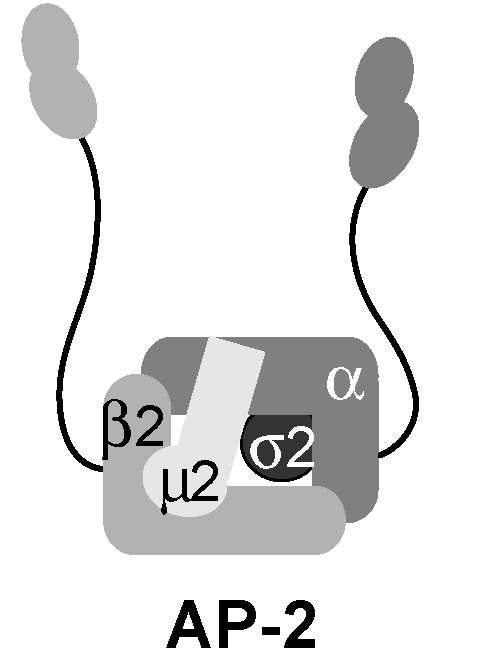 AP-2 complex subunits